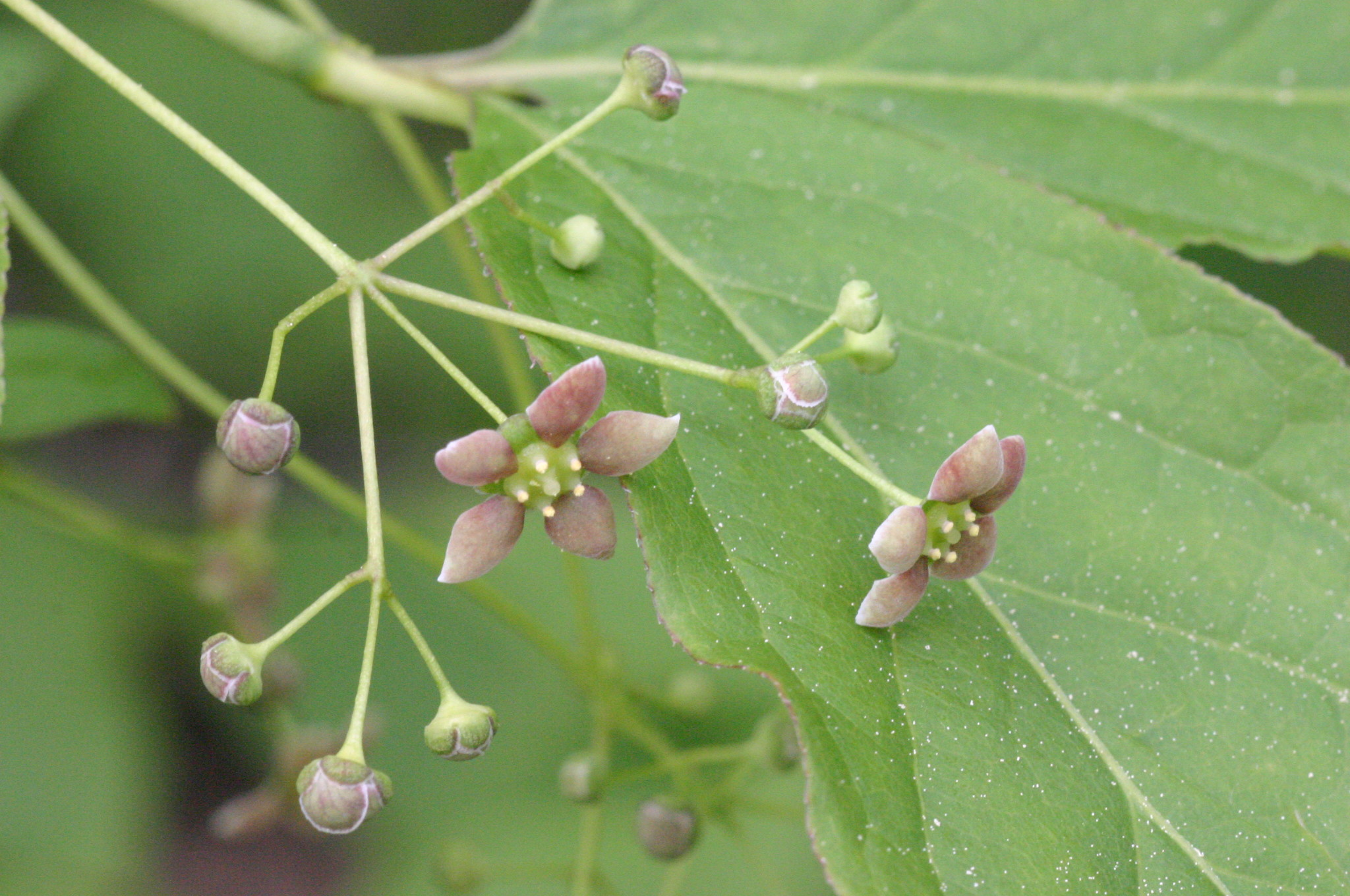 Euonymus latifolius